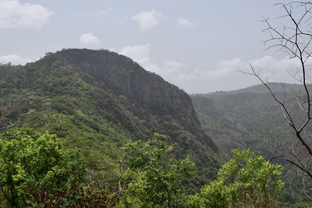 Aduadu taken from from Afadja, Ghana